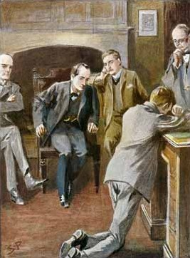 Sherlock Holmes in "The Adventure of the Three Students."